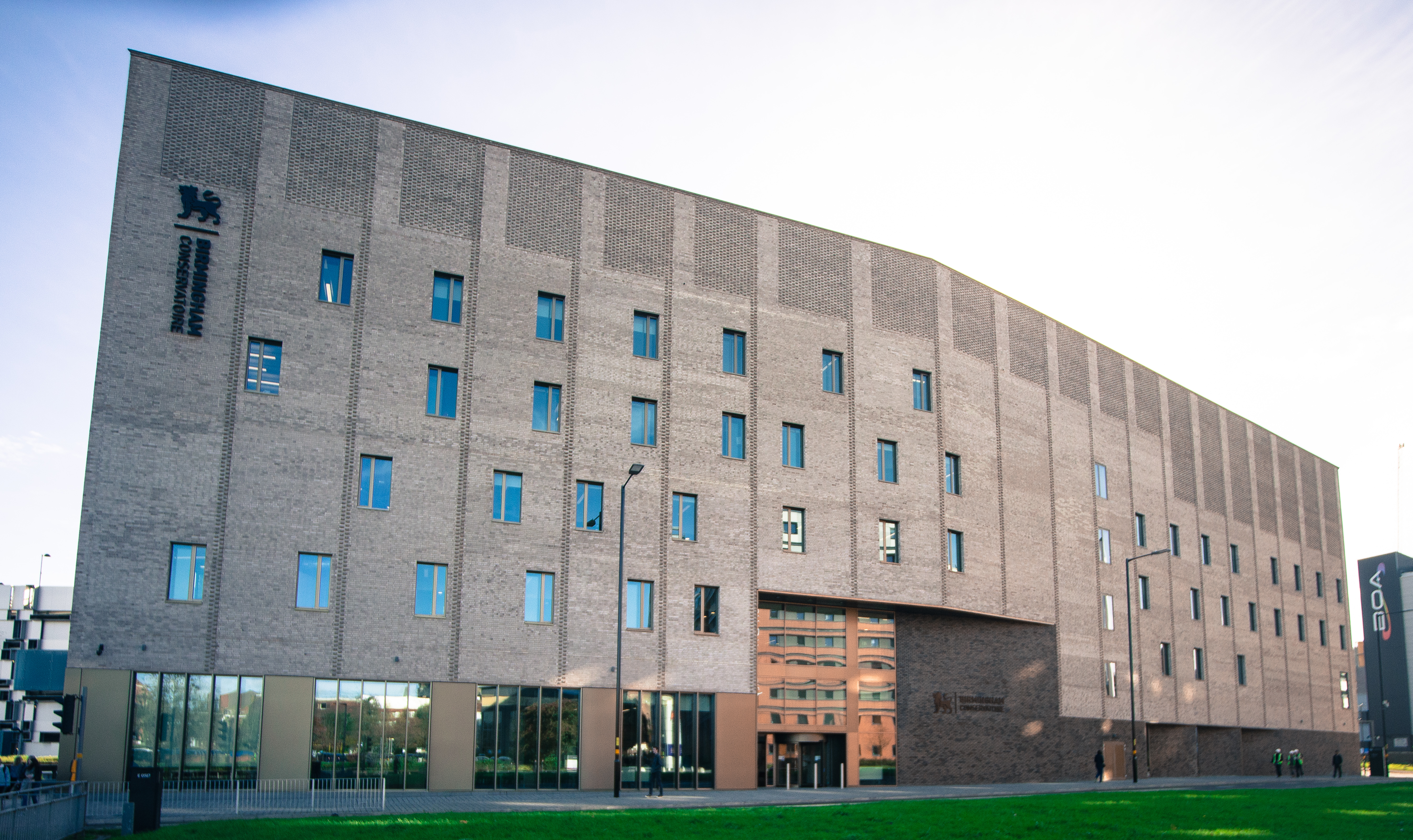 The Royal Birmingham Conservatoire from Jennens Road opened in September 2017.